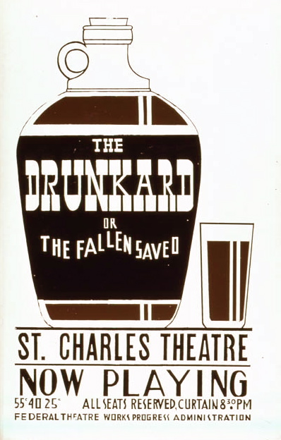 Poster for "The Drukard" or "The Fallen Saved", St. Charles Theater, New Orleans, 1939. Federal Art Project production.